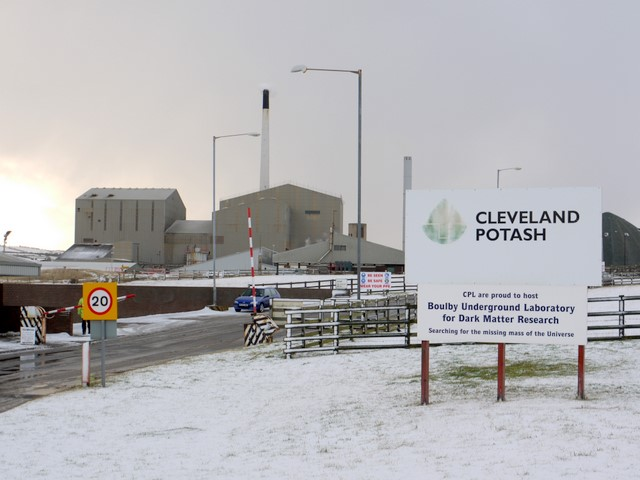 No WIMPS here - entrance to Boulby Mine. The underground laboratory for Dark Matter Research, 1,100 metres underground, within Cleveland Potash's Boulby Mine was officially opened on 18 April 2003. The experiment was conceived to search for Weakly Interacting Massive Particles (WIMPs) and is run by a consortium consisting of astrophysicists and particle physicists from the United Kingdom. The aim is to detect rare scattering events which would occur if galactic dark matter ('the missing mass of the Universe') consists largely of a new heavy neutral particle. Sadly none of the elusive particles have yet been found. There is a wider photo of the mine entrance here 881438, where the underground laboratory sign is visible, but not legible.